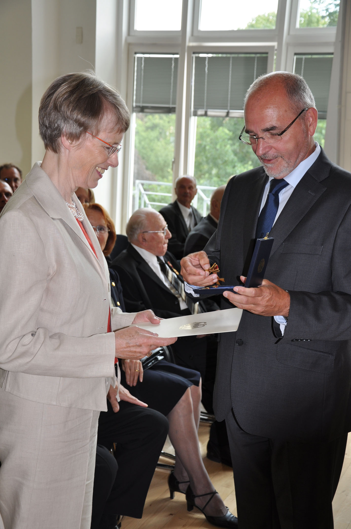 German theologian Prof. Dr. Barbara Aland receives "Knight's Cross" of the Order of Merit of the Federal Republic of Germany, July 2011.